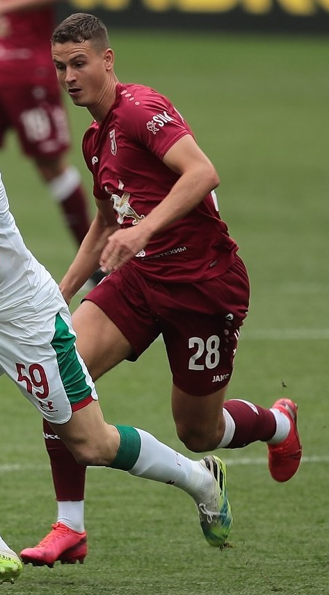 Oliver Abildgaard with FC Rubin Kazan in a game against FC Lokomotiv Moscow.